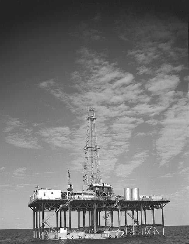 Title: [Offshore oil well drilling platform, Continental Oil Co., C.A.T.C., Gulf of Mexico] Creator: Richie, Robert Yarnall Date: March 23, 1955 Part Of: Robert Yarnall Richie Photograph Collection Place: Gulf of Mexico Physical Description: 1 negative: film, black and white; 13.4 x 10.2 cm. File: ag1982_0234_4135_08_continentalpltf_sm_opt.jpg Rights: Please cite Southern Methodist University, Central University Libraries, DeGolyer Library when using this image file. A high-quality version of this file may be obtained for a fee by contacting . For more information, see: View the Robert Yarnall Richie Photograph Collection